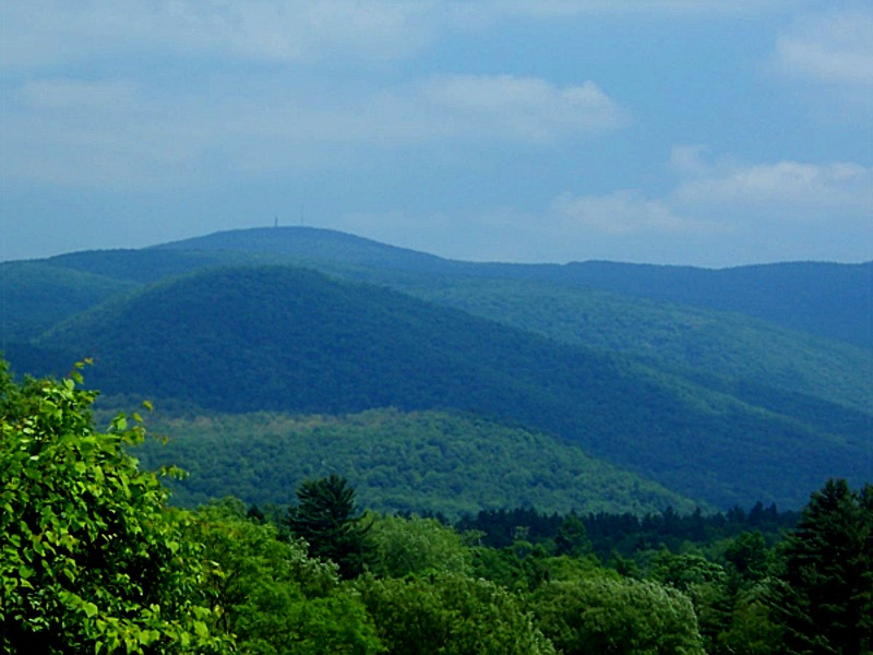 Mount Greylock, from Route 43 in Hancock, MA, USA